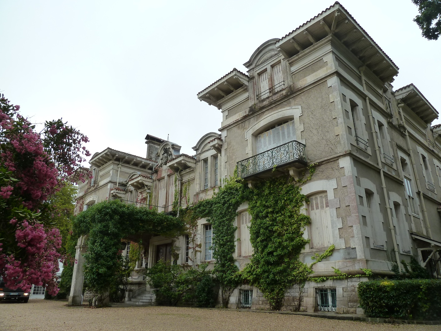 Castle of Arcangues